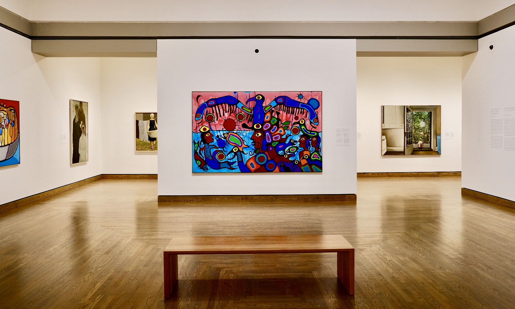 Norval Morrisseau, Artist and Shaman between Two Worlds, 1980, acrylic on canvas, 175 x 282 cm, National Gallery of Canada, Ottawa. “Norval Morrisseau (1931–2007) is considered by many to be the Mishomis, or grandfather, of contemporary Indigenous art in Canada. His life has been sensationalized in newspapers and documentaries while his unique artistic style has pushed the boundaries of visual storytelling. The creator of the Woodland School of art and a prominent member of the Indian Group of Seven, Morrisseau is best known for using bright colours and portraying traditional stories, spiritual themes, and political messages in his work.” Source: Robertson, Carmen. Norval Morrisseau: Life & Work. Art Canada Institute. Available at